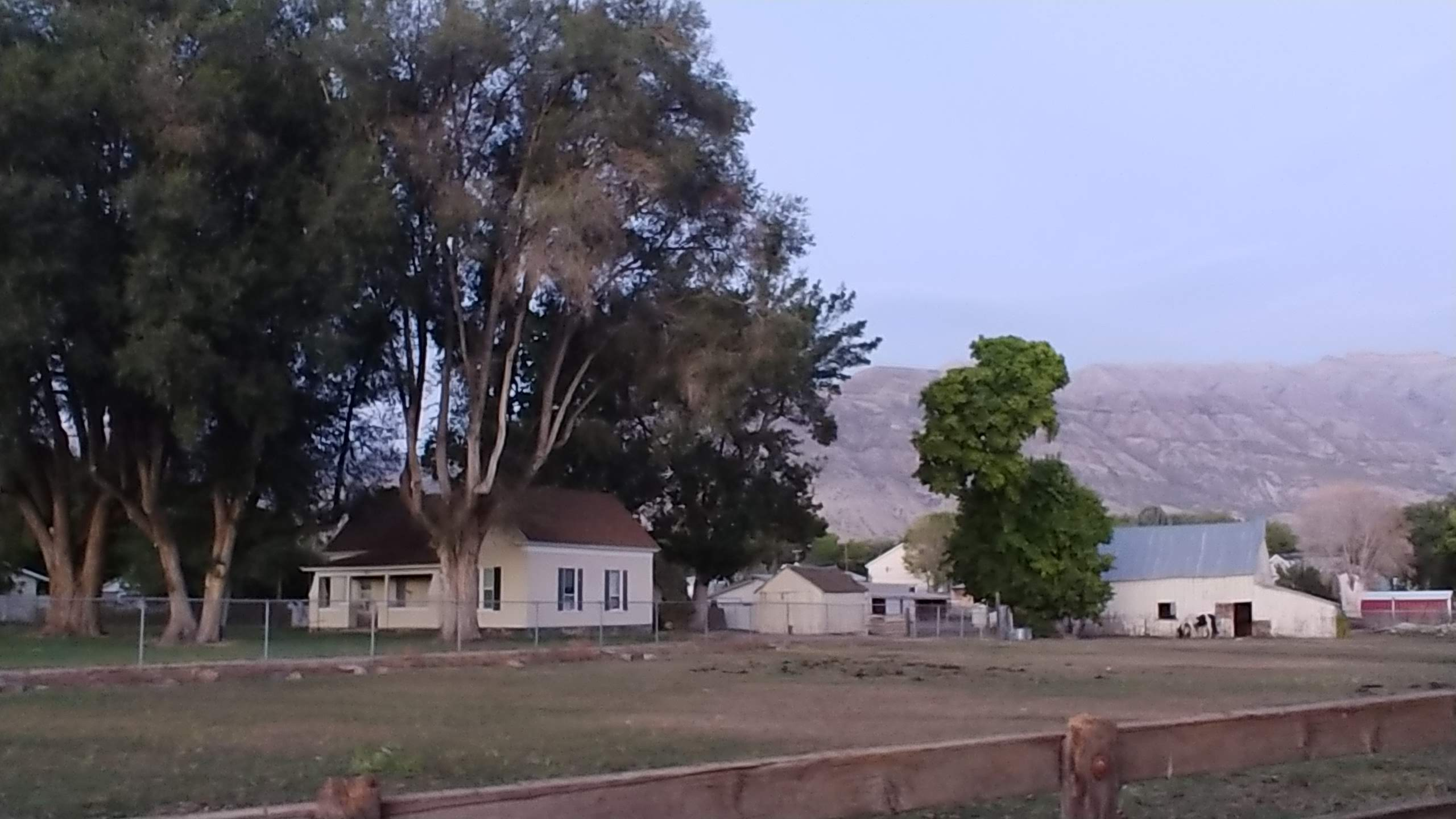 The south-west side of the Dunn-Binnall house and farmstead with the Wasatch Mountains in the background.